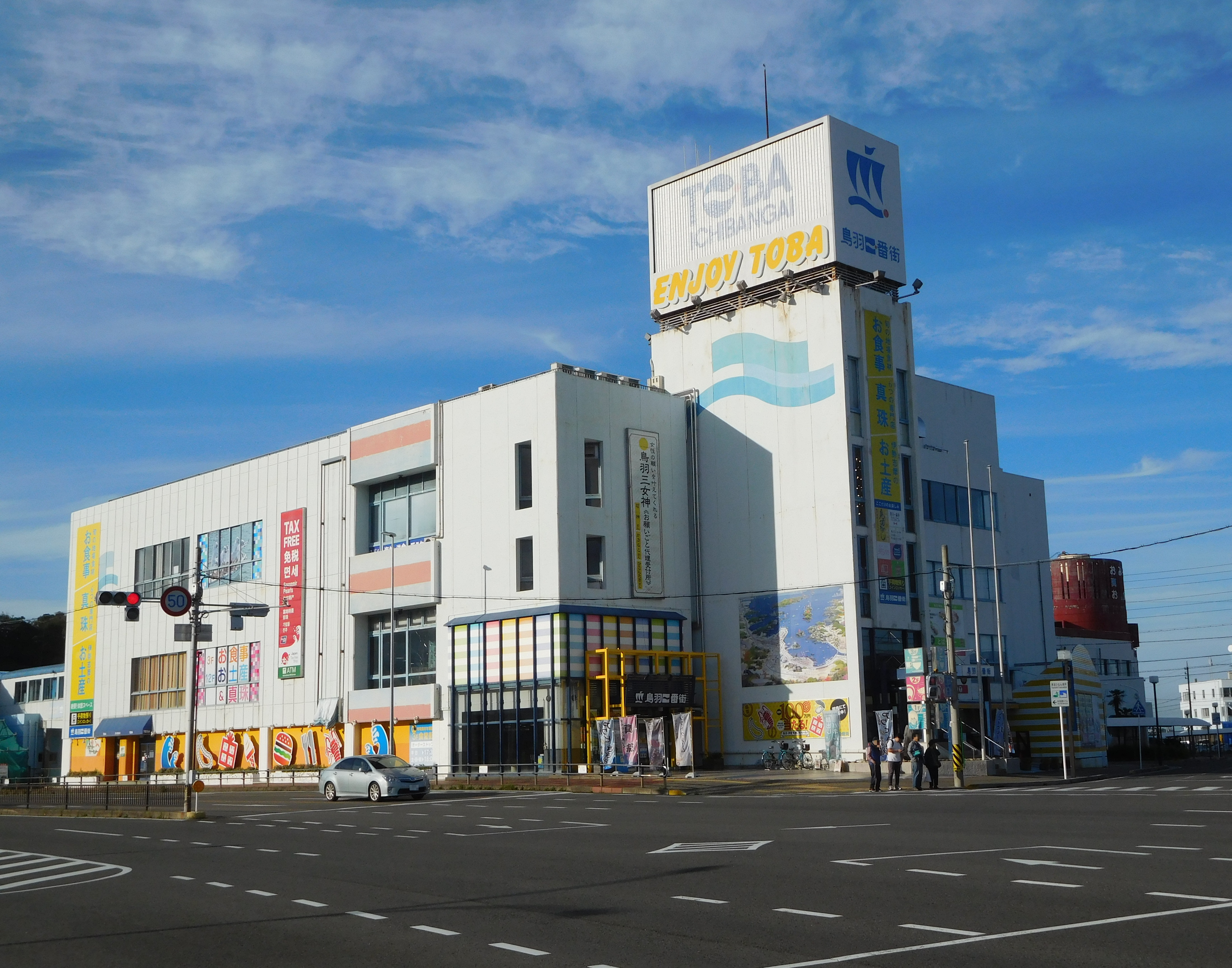 This is Toba Ichibangai in Toba, Mie, Japan.